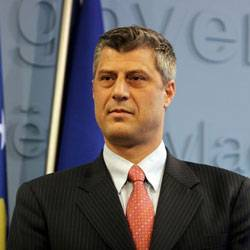 Hashim Thaçi, then Republic of Kosovo Minister of Foreign Affairs